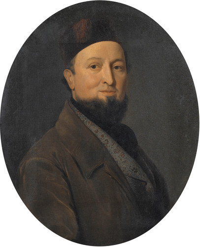 Portrait Karl Emanuel von Tscharner (1791-1873), sculptor.